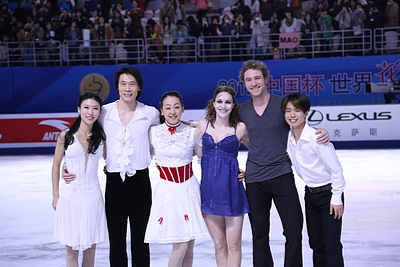 Gold Medalists at the exhibition gala of the Cup of China 2012